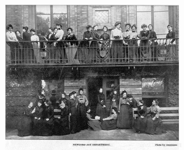 New Orleans: "Newcomb Art Department", teachers and students, 1901. Newcomb at the time was the women's college of Tulane University.